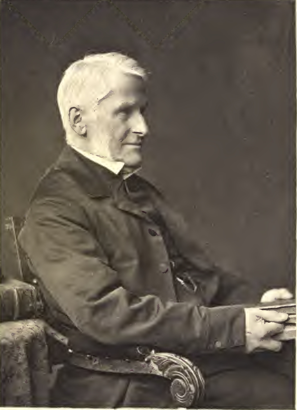 Edward Hoare (1802-1877) in his older years.